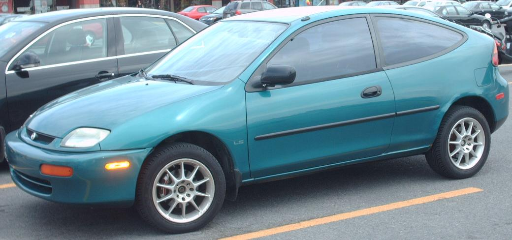 1995 Mazda 323 photographed in Montreal, Quebec, Canada.